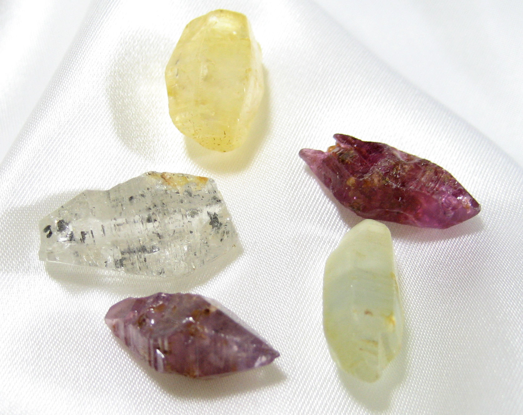 several corundum crystals